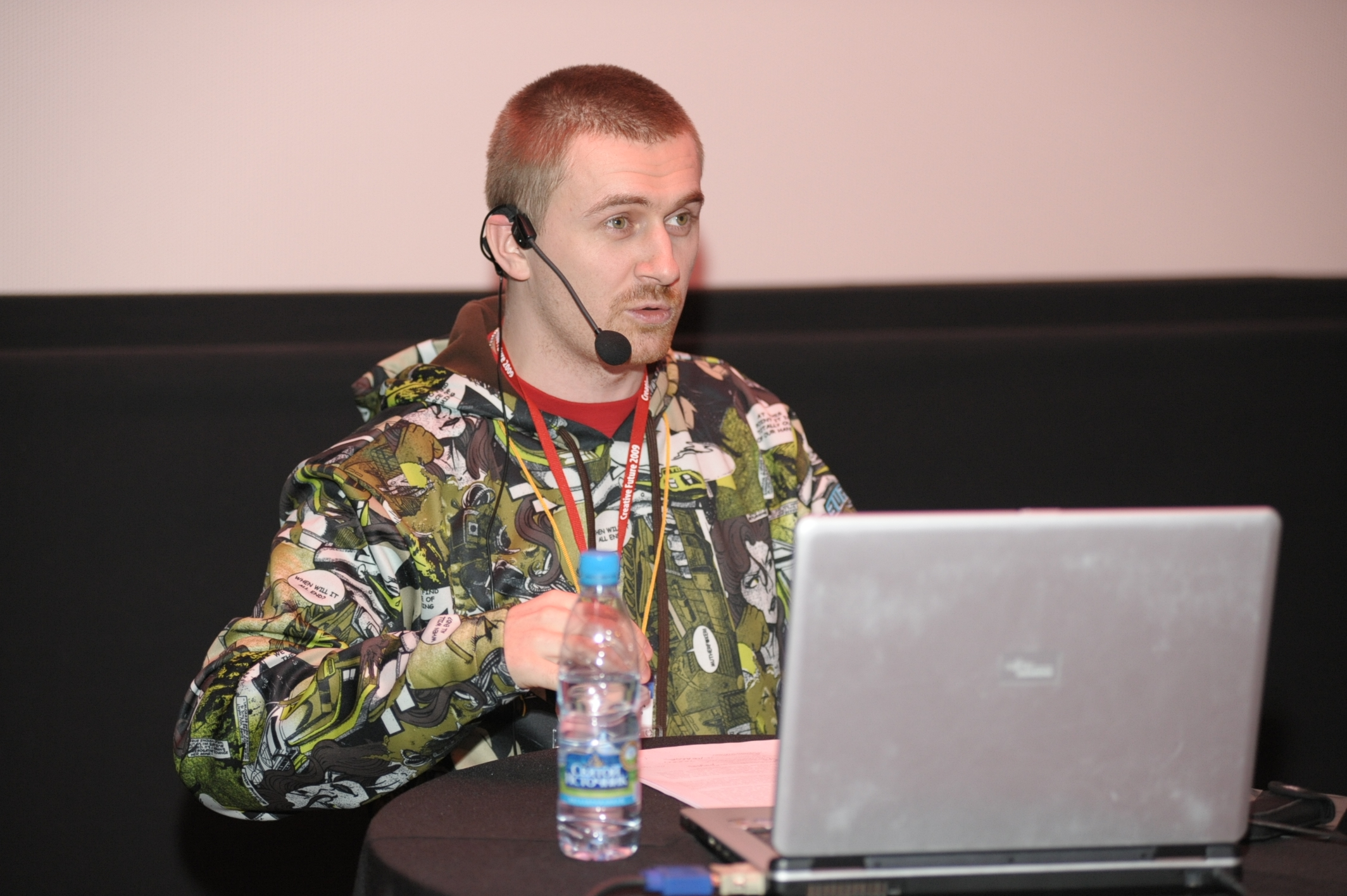 Выступление на Adobe Creative Future